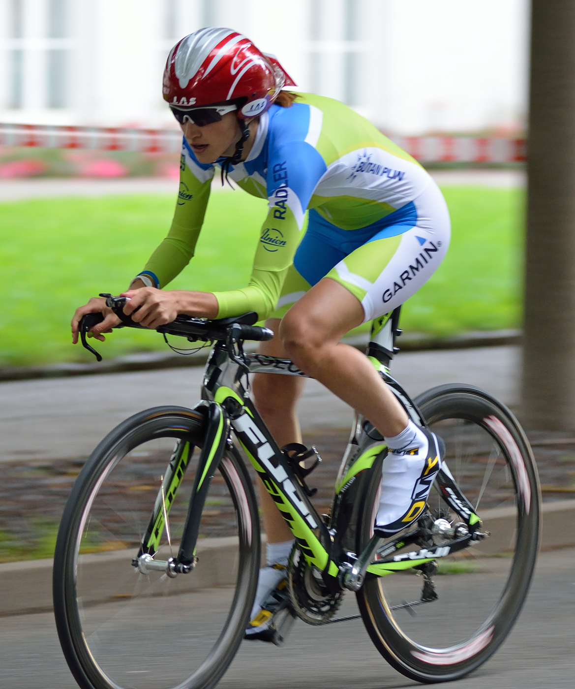 Polona Batagelj from the National Team Slovenia during the Women's Tour of Thuringia 2012 in Zwickau, Germany.